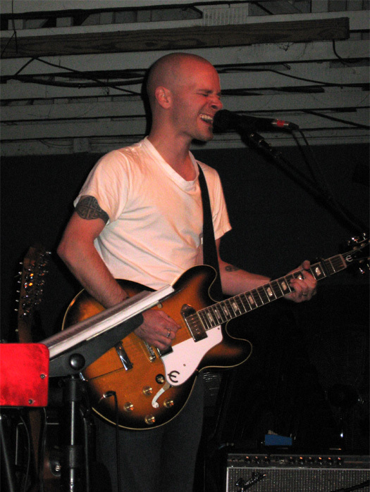 Derek Webb At the Grey Eagle In Asheville, NC